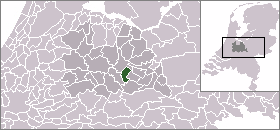 Location of Dutch former municipality Driebergen-Rijsenburg in 2005. Made by me (Mtcv), PD.